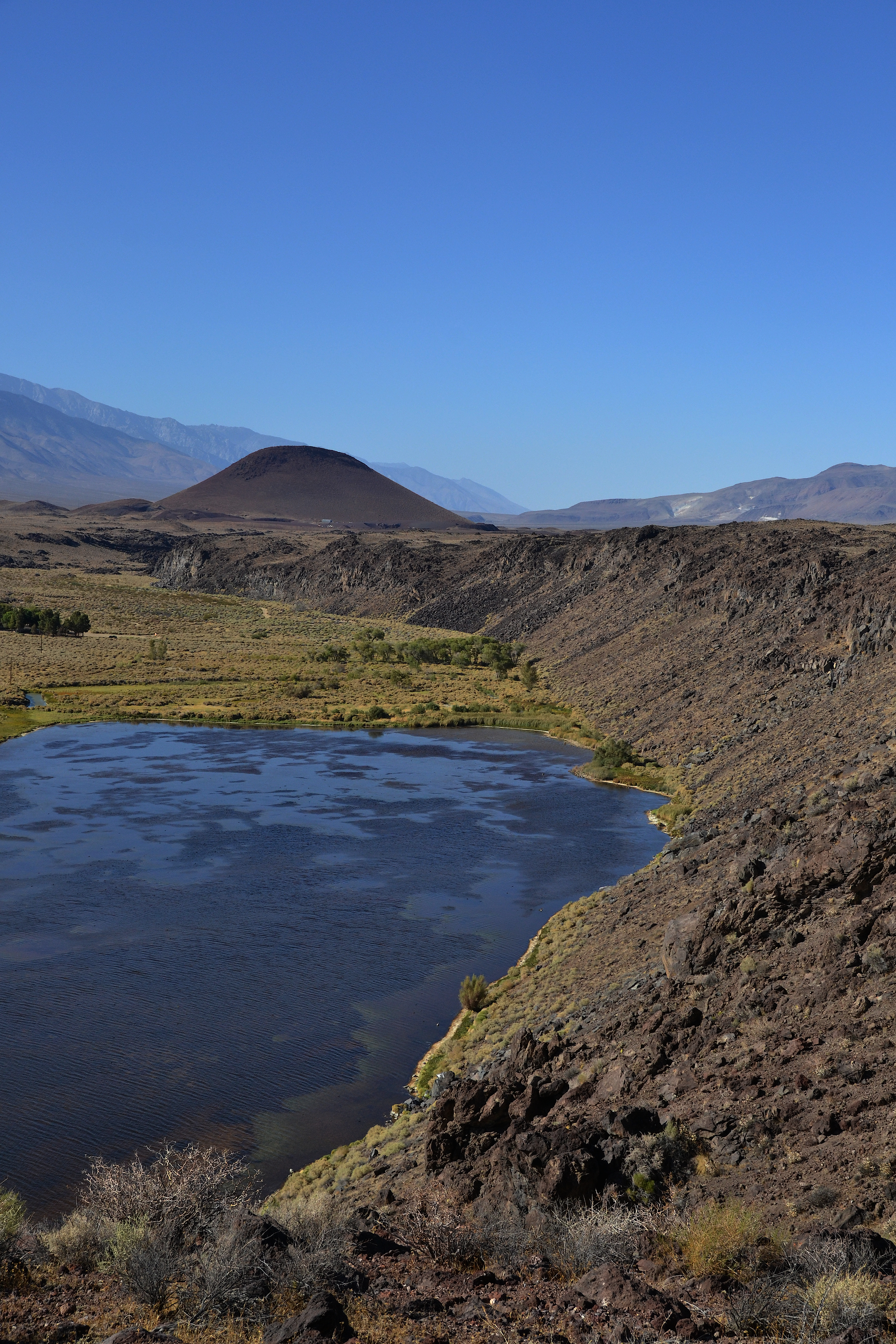 Little Lake looking north from the lava flow on its east side.